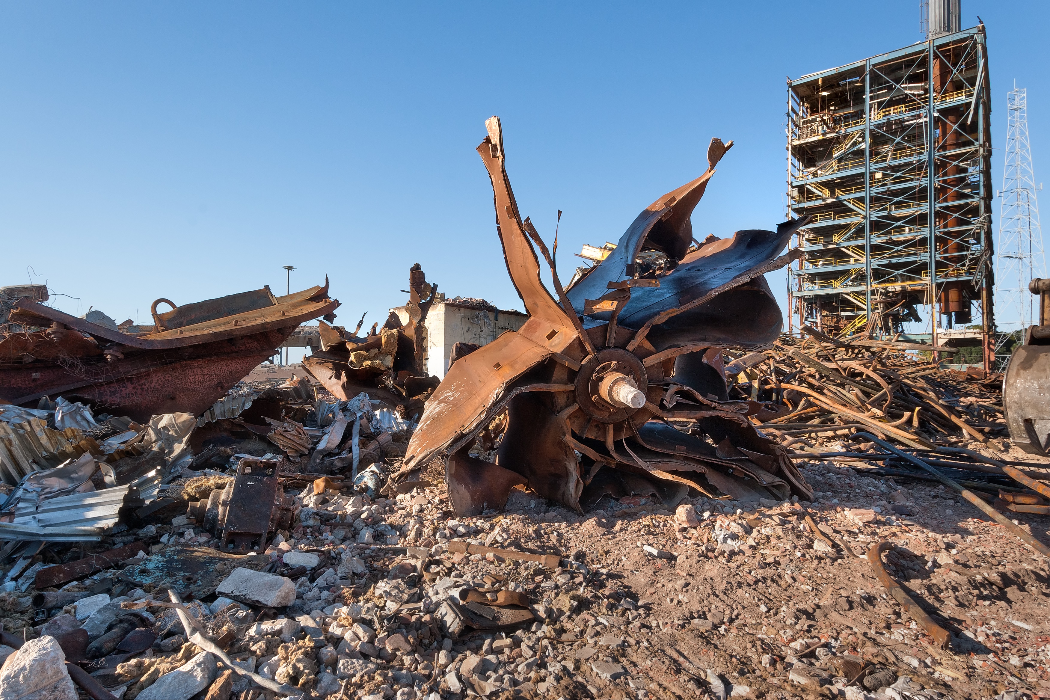 Demolition of the George E. Turner Power Plant in Enterprise, Florida. Portions of a turbine or fan are in the foreground.